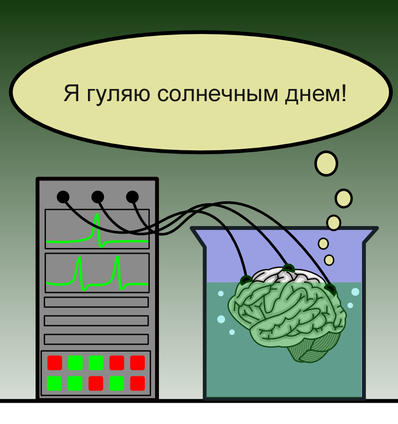 brain in a vat.